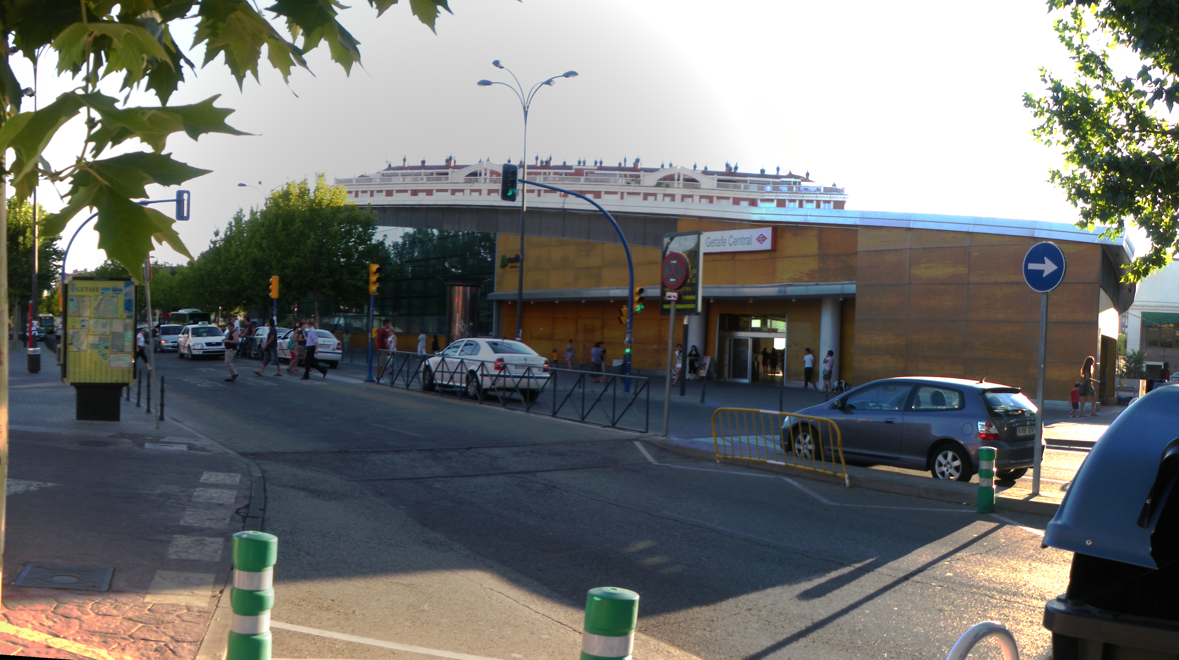 A panoramic (made of with Hugin software) of station of train building in Getafe, the station's name is Getafe Central.